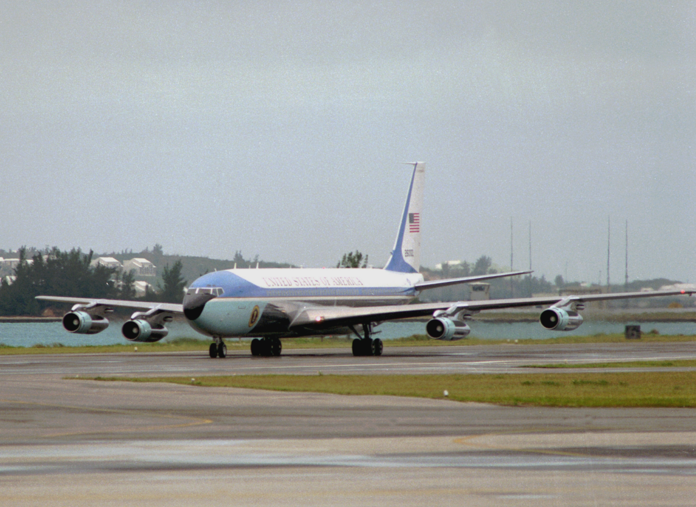 The U.S. Air Force Boeing VC-137C Stratoliner "Air Force One" aircraft (s/n 62-6000), arriving at Naval Air Station Bermuda with U.S. President George H.W. Bush aboard on 13 April 1990. President Bush was attending a summit meeting with the British Prime Minister Margaret Thatcher.